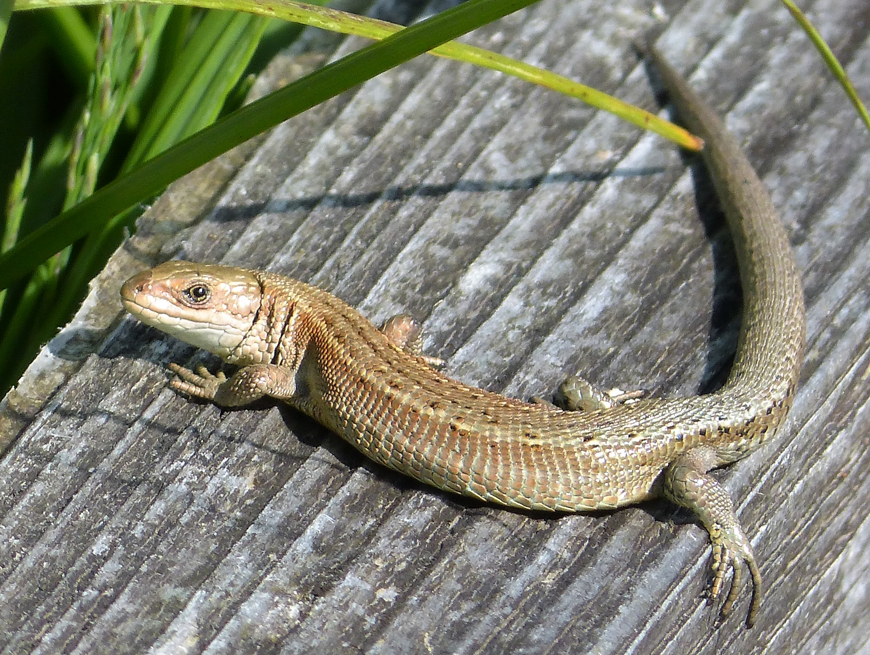 Cors Caron NNR, Tregaron Wales. SN702614